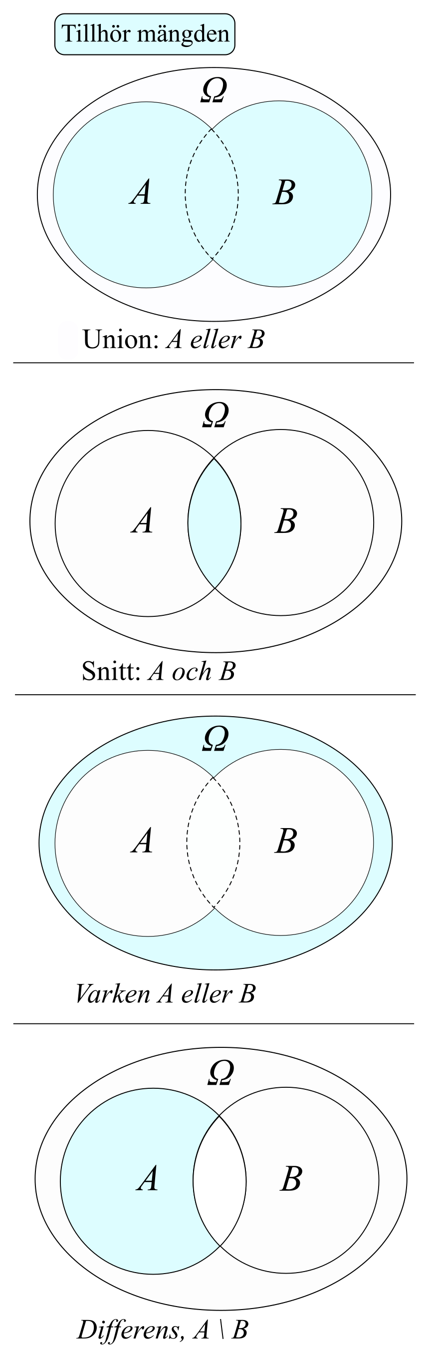 group of 3 sets